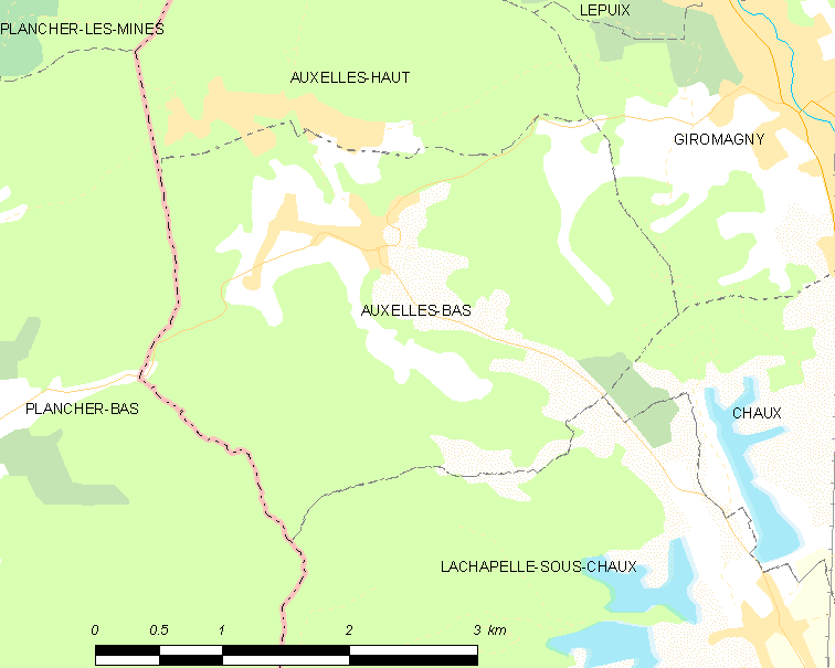 Map of French municipality Auxelles-Bas